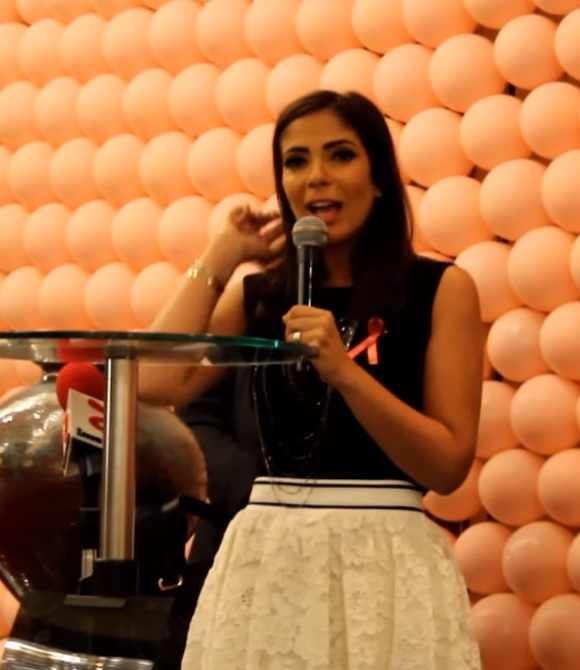 Mona Zaki in fighting breast cancer campaign 2015.